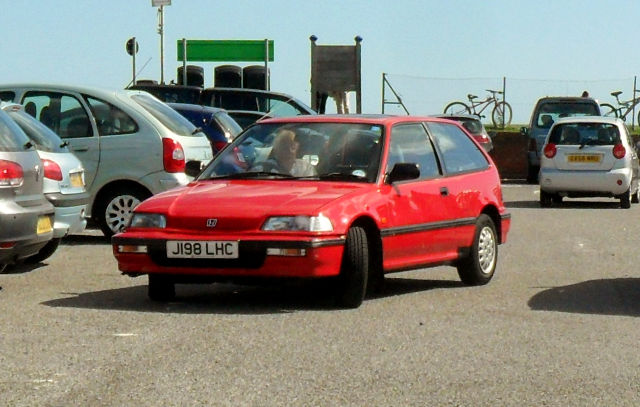 An early nineties model. In Eastbourne.